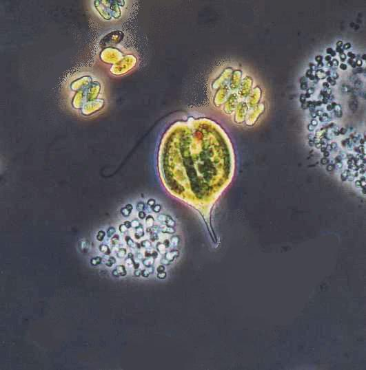 Images have been made by Nikon Eclipse E 600 light microscope using an original magnification of 400x - 600x range, at South-Transdanubian Emvironment Protection Inspectorate, Laboratory for Environment Protection (Hungary). Photos of algae have been taken from samples of natural surface waters of South-Transdanubian region; the majority originated from river Dráva and lake Baláta. Images have been made by phase contrast setting, whereas a blue color filter has been used instead of a green one recommended by the literature. The reason of the change is that although the green filter gives a sharp image, it reflects the shades of gray color only. When using a blue color filter, the sharpness of the image is barely reduced, but the colors of the object are retained. Scientific names of algal specie is Phacus suecicus.